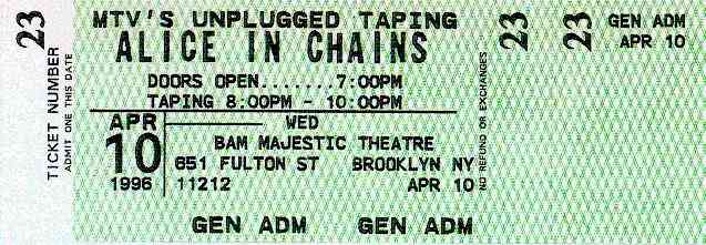 MTV Unplugged Taping Alice in Chains - Ticket